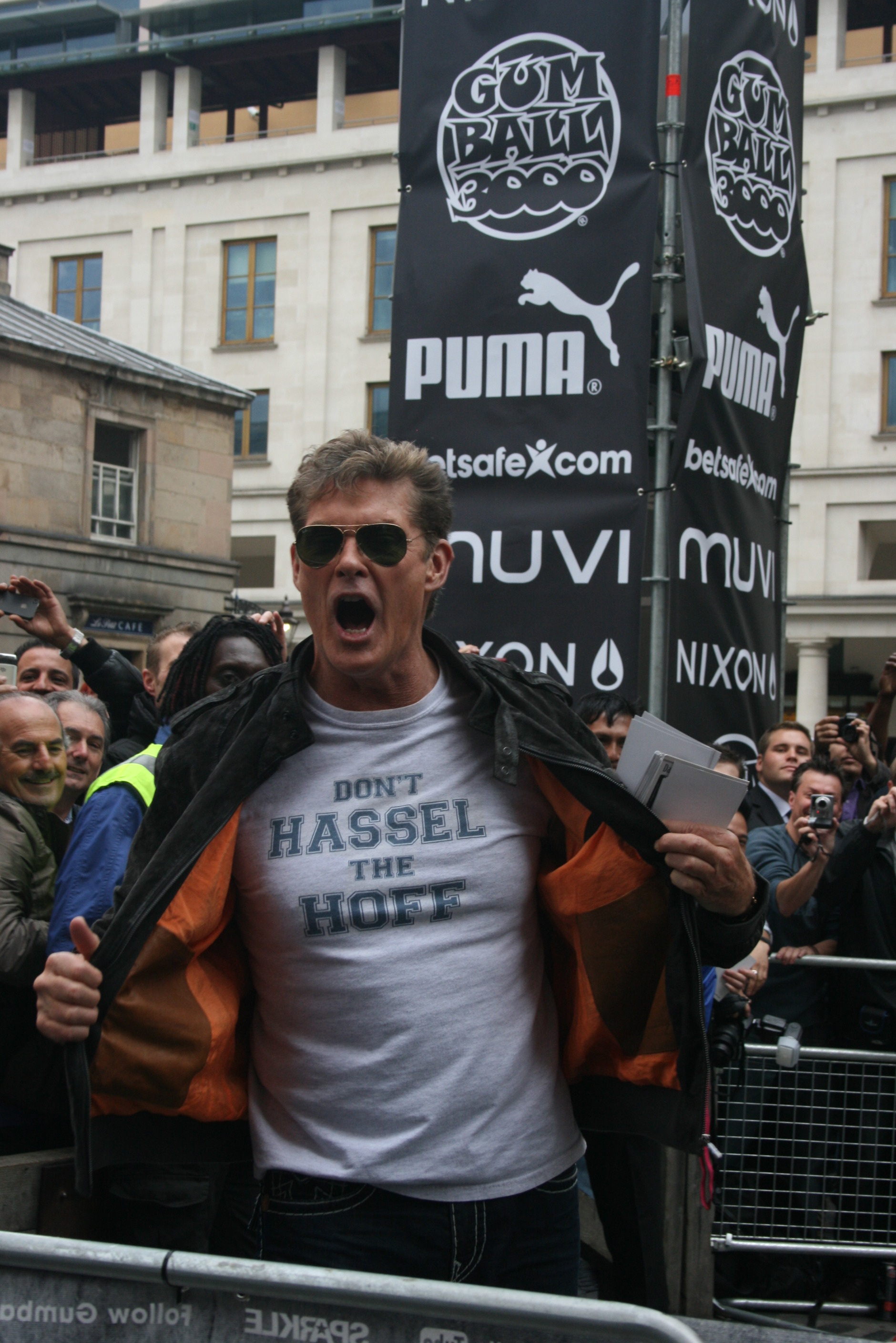 Don't Hassel the Hoff!